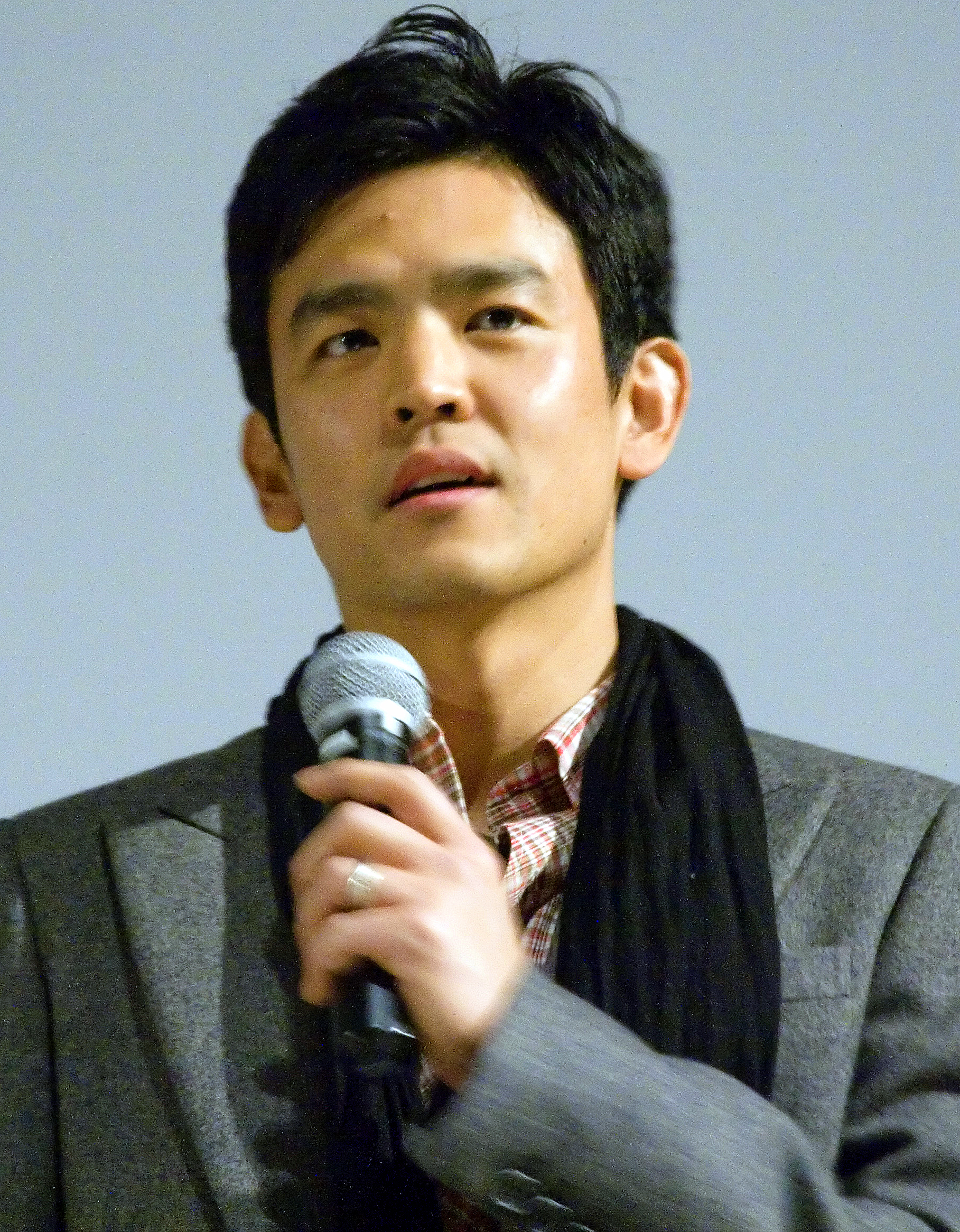 Actor John Cho promoting Harold & Kumar Escape from Guantanamo Bay 2008.